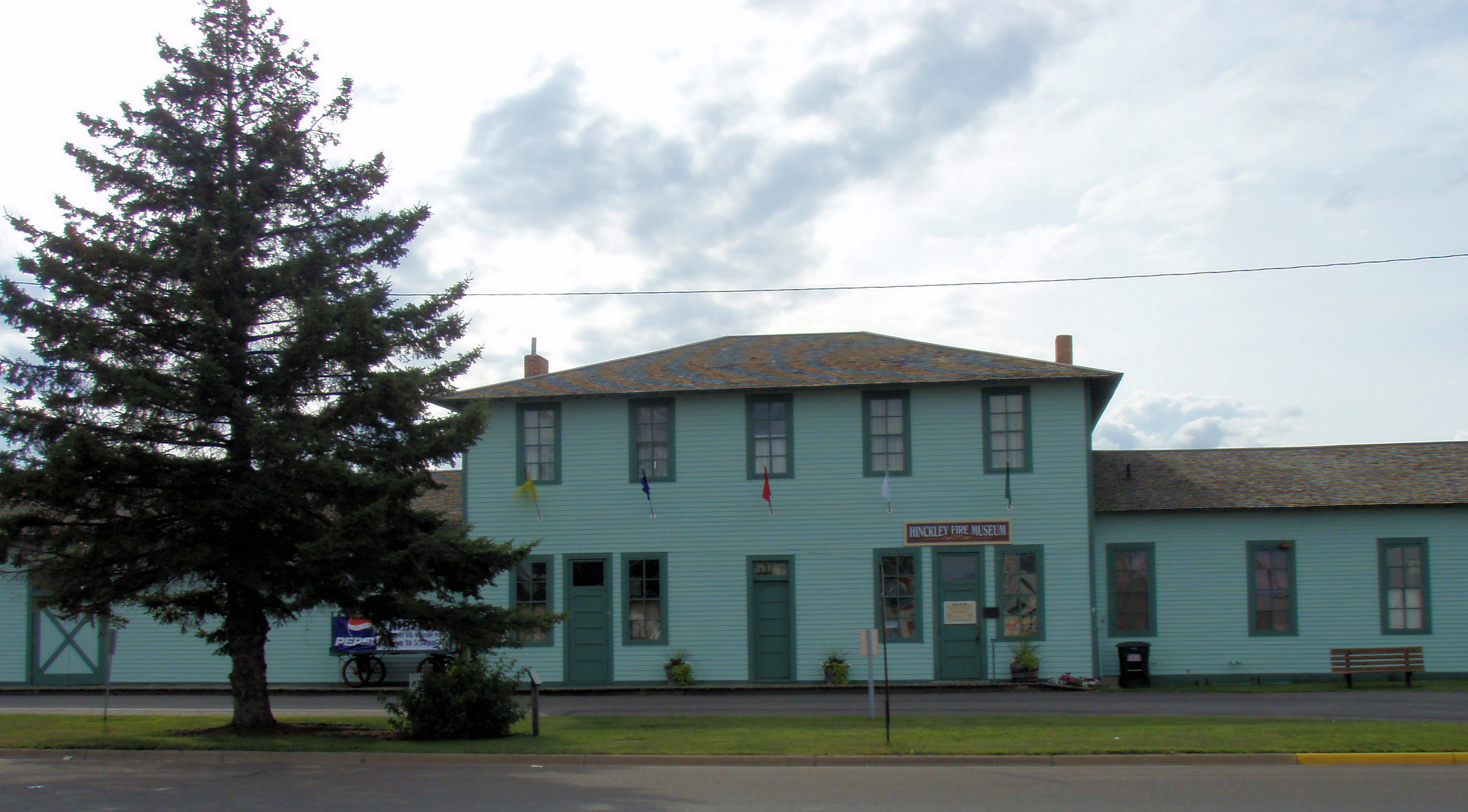 Northern Pacific Depot (Hinckley, Minnesota), also known as the Hinckley Fire Museum, in Hinckley, Minnesota.